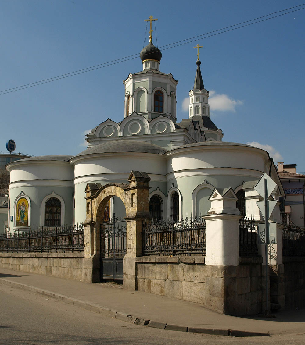 Church of Rising the Cross, near Plushchikha Street, Moscow